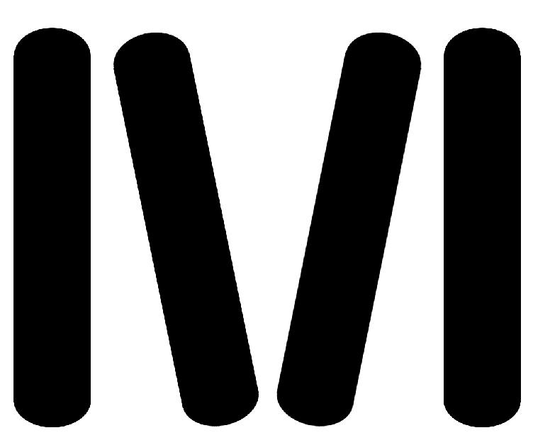 Logo of Argentine publisher, Ediciones Minotauro.